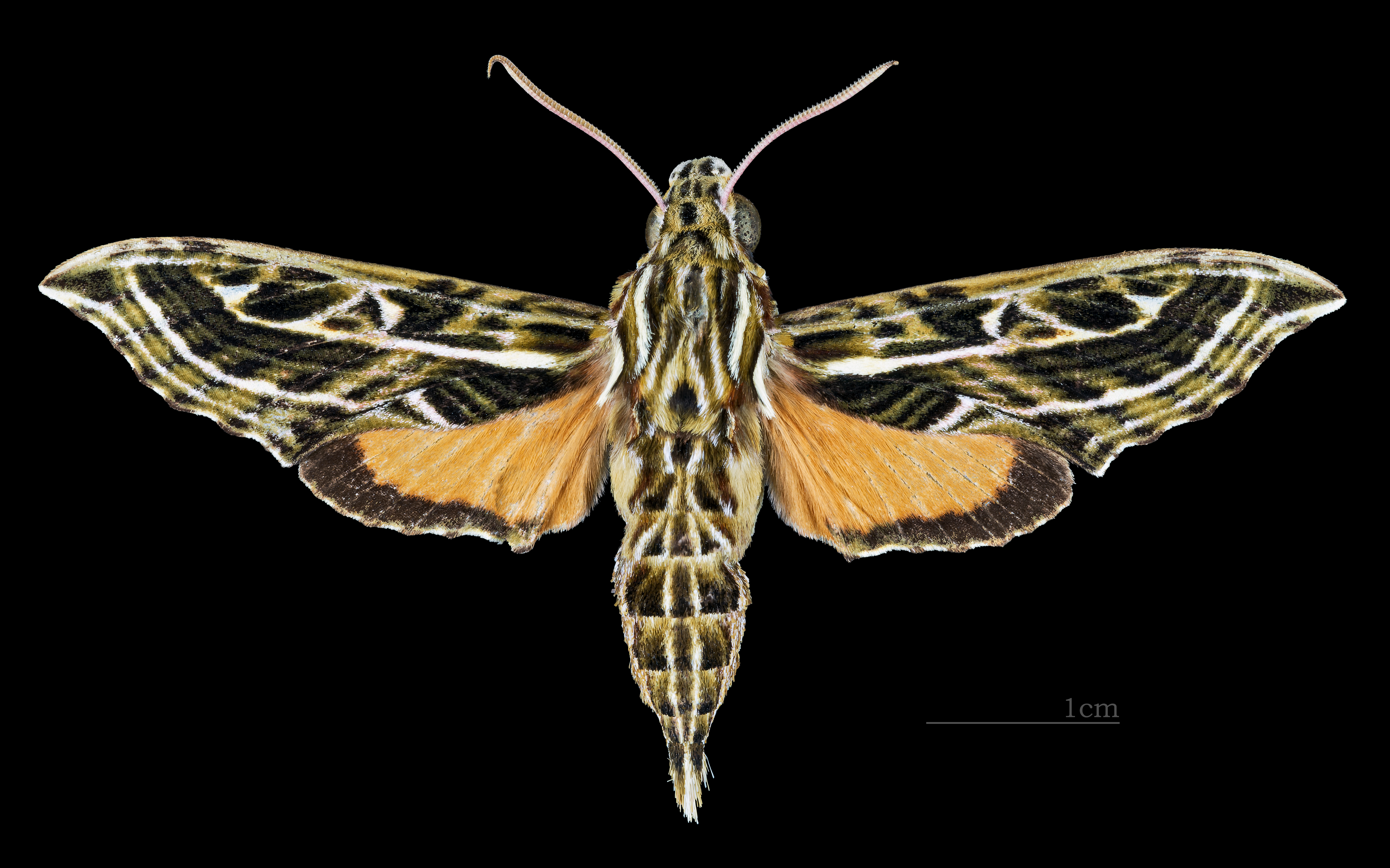 Eupanacra pulchella - Dorsal side Collection of the Mathematician Laurent Schwartz